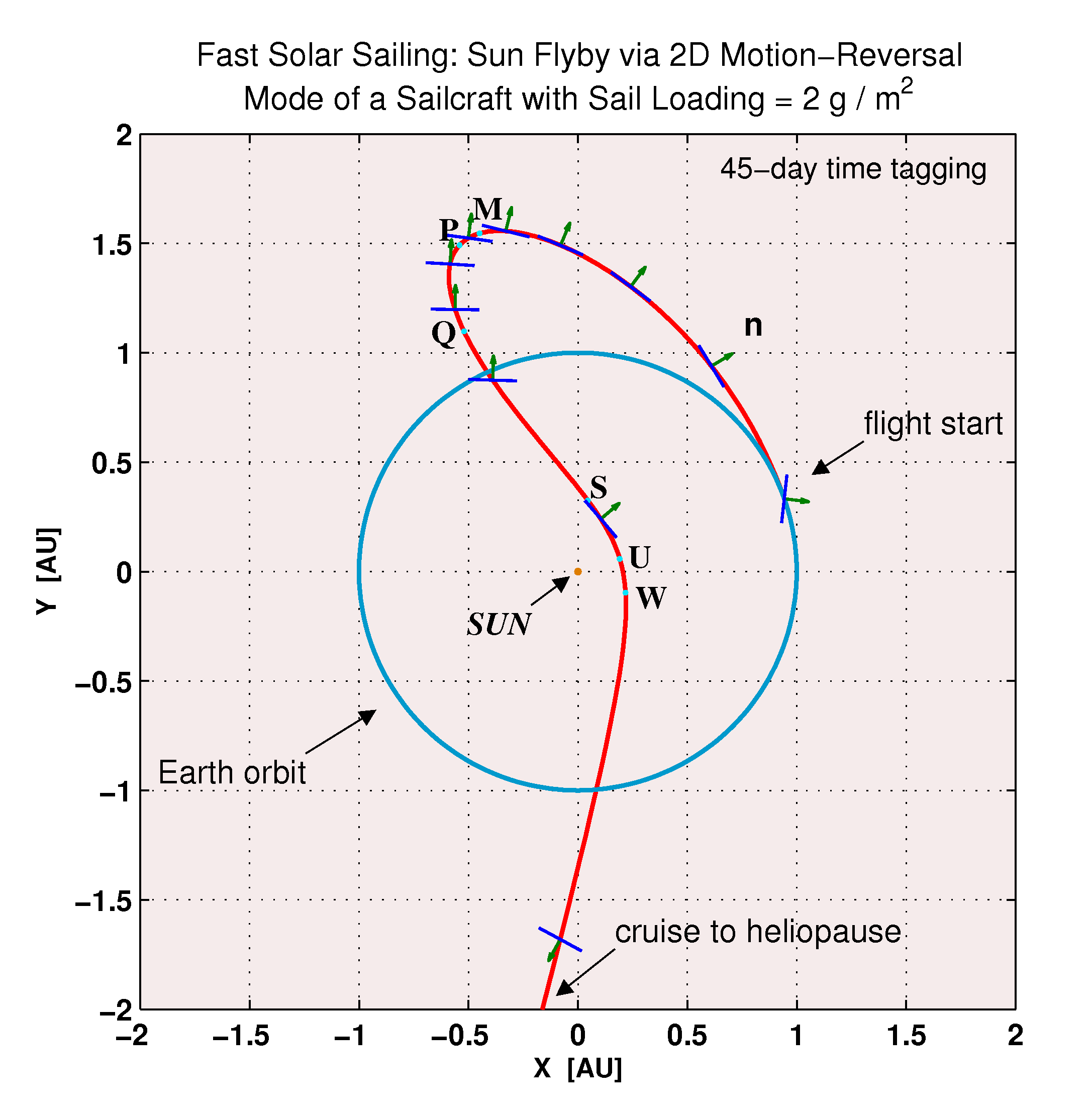 Optimal solar sailing route.